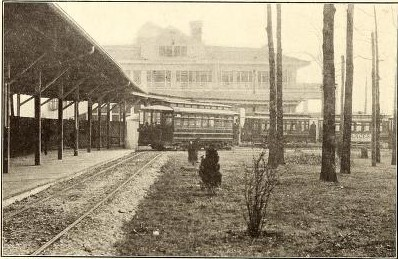 Title: The Street railway journal Year: 1884 (1880s) Authors: Subjects: Street-railroads Electric railroads Transportation Publisher: New York : McGraw Pub. Co. Text Appearing Before Image: when the signal is given to the man operating the turn-table to revolve it. The tableis then turned through 120 degs. The conductor then al-lows the trolley to return to the wire on outgoing track andgives the go-ahead signal for the motorman. By actual test this procedure has been accomplished in20 seconds, and it is expected that with a little practiceeven this brief time will be greatly reduced to much shortertime, and from trials already made the scheme appears to bevery satisfactory. ACCIDENT FRAUD RUN DOWN IN PENNSYLVANIACENTRAL PENNSYLVANIA TRACTIONCOMPANY BY The Central Pennsylvania Traction Company, of Har-risburg-, has caused the arrest of William Wingrove, a trav- Text Appearing After Image: LOADING YARD AND LAY-OVER TRACK AT THE HOT SPRINGS RACE TRACK eling salesman, at his home in York, on a charge of beinga party to a conspiracy to defraud the company out of $3,200.This sum was the amount of a claim awarded by theDauphin County Court as the result of injuries alleged tohave been sustained by his wife in a fall from one of thecars belonging to the complainant. The arrest followedthe arrest of a witness in the case for the prosecution, whois alleged to have made a confession disclosing the con-spiracy. March 23, 1907.) STREET, RAILWAY JOURNAL. 495 ELECTRICAL NIGHT AT THE NEW YORK RAILROAD CLUB The third annual electrical night of the New York Rail-road Club was held on March 15 in the Engineering Build-ing. Instead of the usual technical paper, President Vree-land announced that a number of electric traction expertsand others had been invited to give ten-minute talks ondifferent phases of heavy electric traction. The first speaker was W. J. Wilgus, vice-presidentof the N